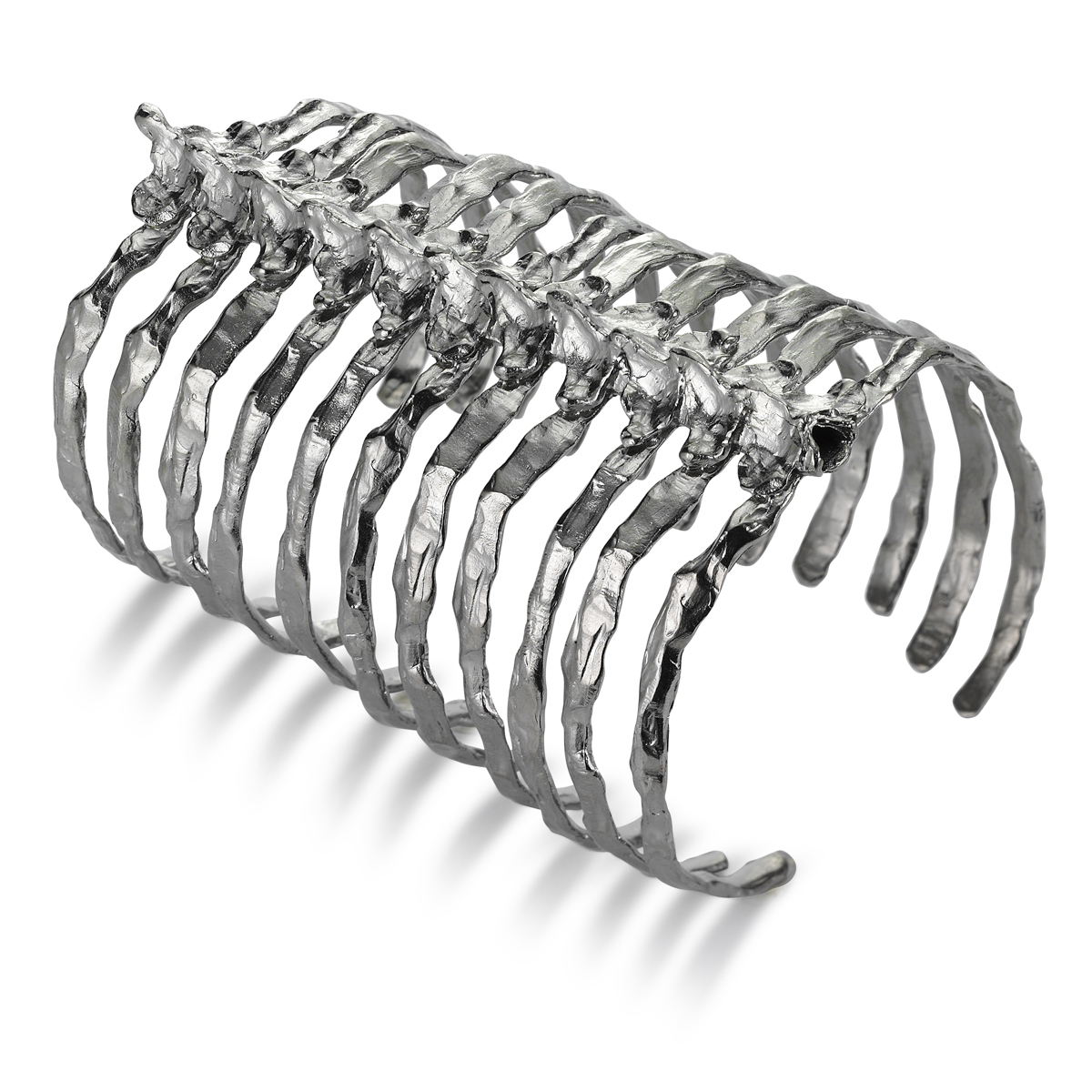 Armpiece After Eden spine cuff - by the Norwegian designer Bjørg Nordli-Mathisen